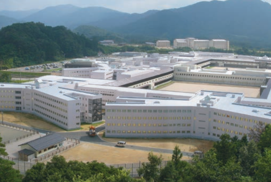 Shimane Asahi social reintegration promotion center